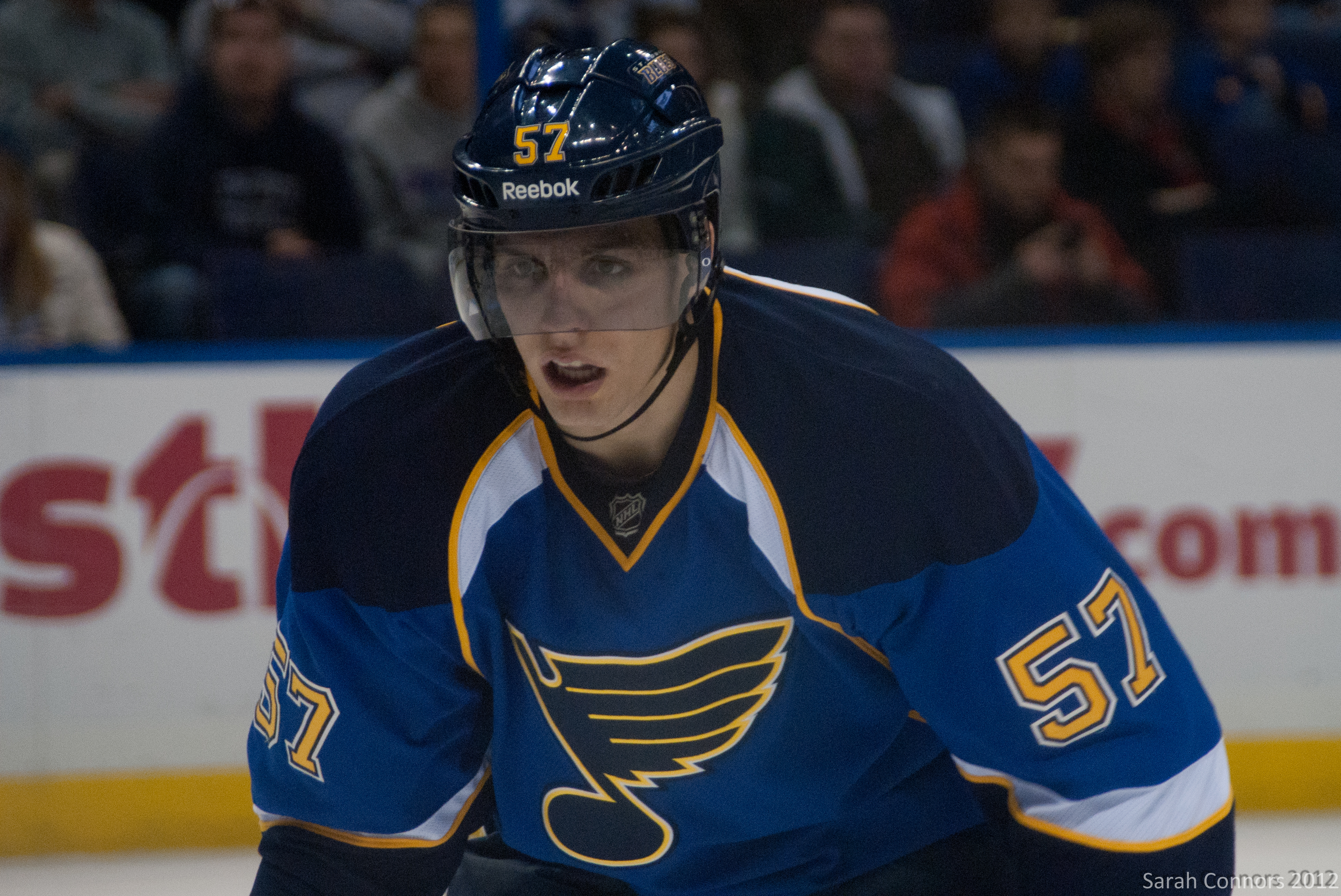 David Perron #57 Boston Bruins vs. St. Louis Blues in National Hockey League action. Bruins win! Glass seats! Everything is happening! Photo taken by Sarah Connors on February 22, 2012 at Downtown West, St. Louis, MO, USA with a Nikon D200.